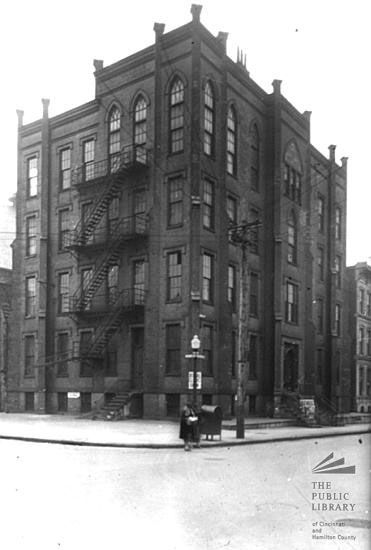 Front view of the Pulte Medical College in Cincinnati, now merged with the Cleveland Homeopathic Schools.